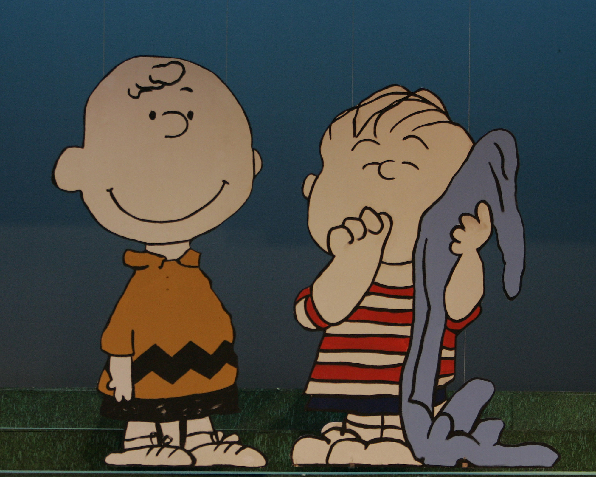 (Photo by Karl Kuntz 11/08/2005) Photo from the Otterbein Theatre production of "You're a Good Man Charlie Brown ".